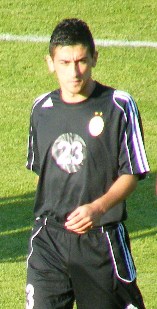 Sabien Lilaj Albanian football player